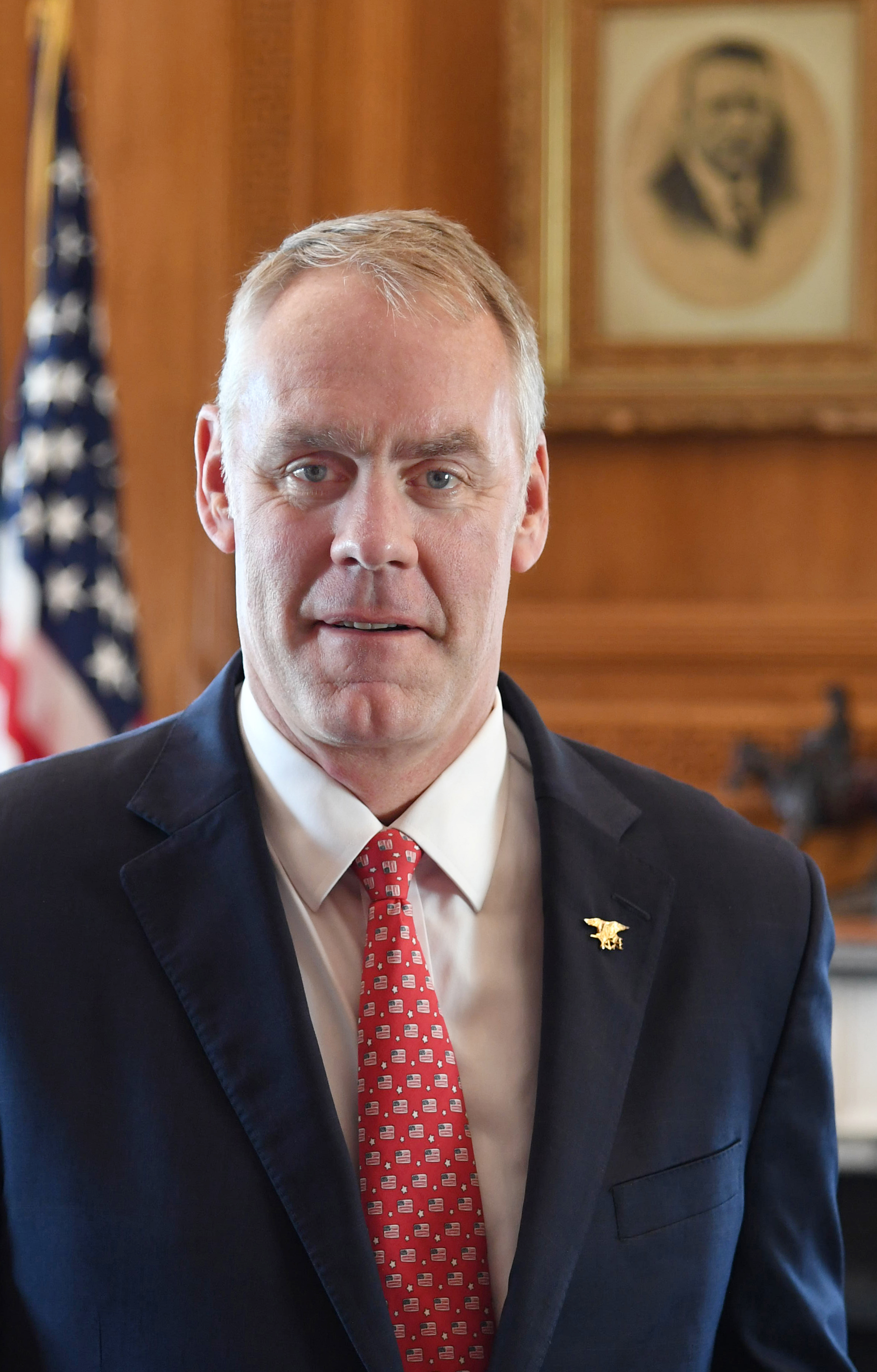 Ryan Zinke's official United States Secretary of Interior portrait